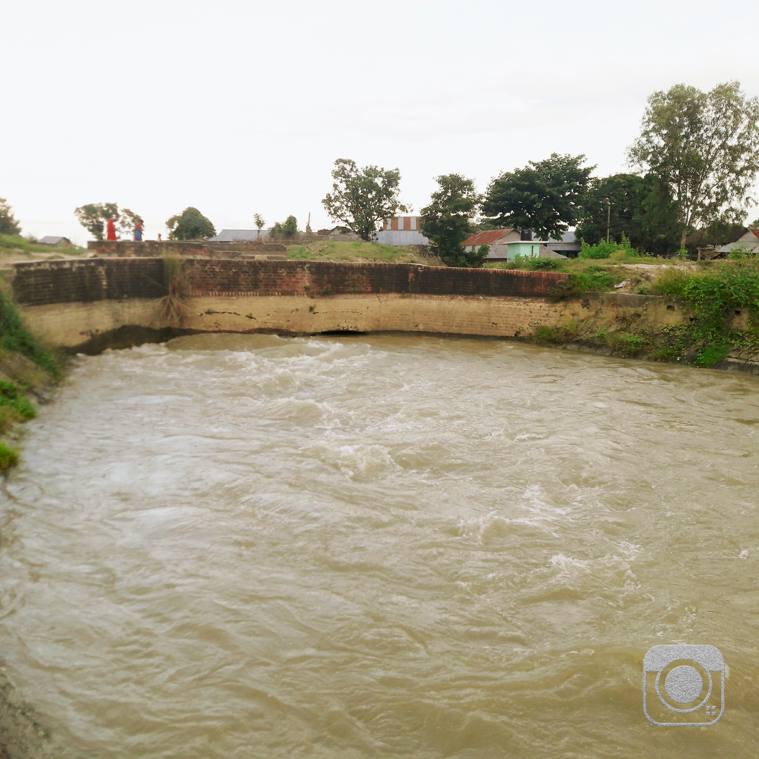 Chandra Canal Siphon near Bhagni Chowk, Saptakoshi was constructed during the construction of Chandra Canal under the river coming from Churiya forest.